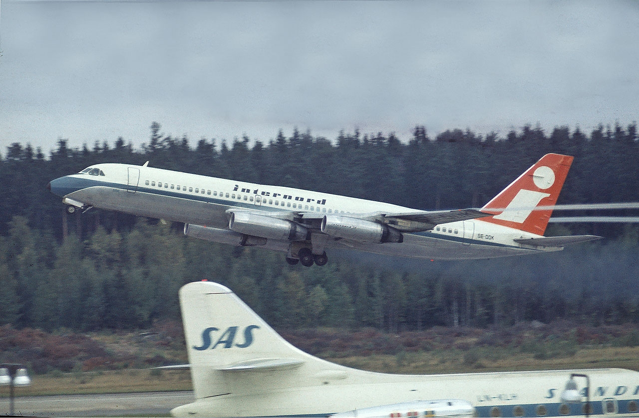 Internord Convair 990A (30A-5)